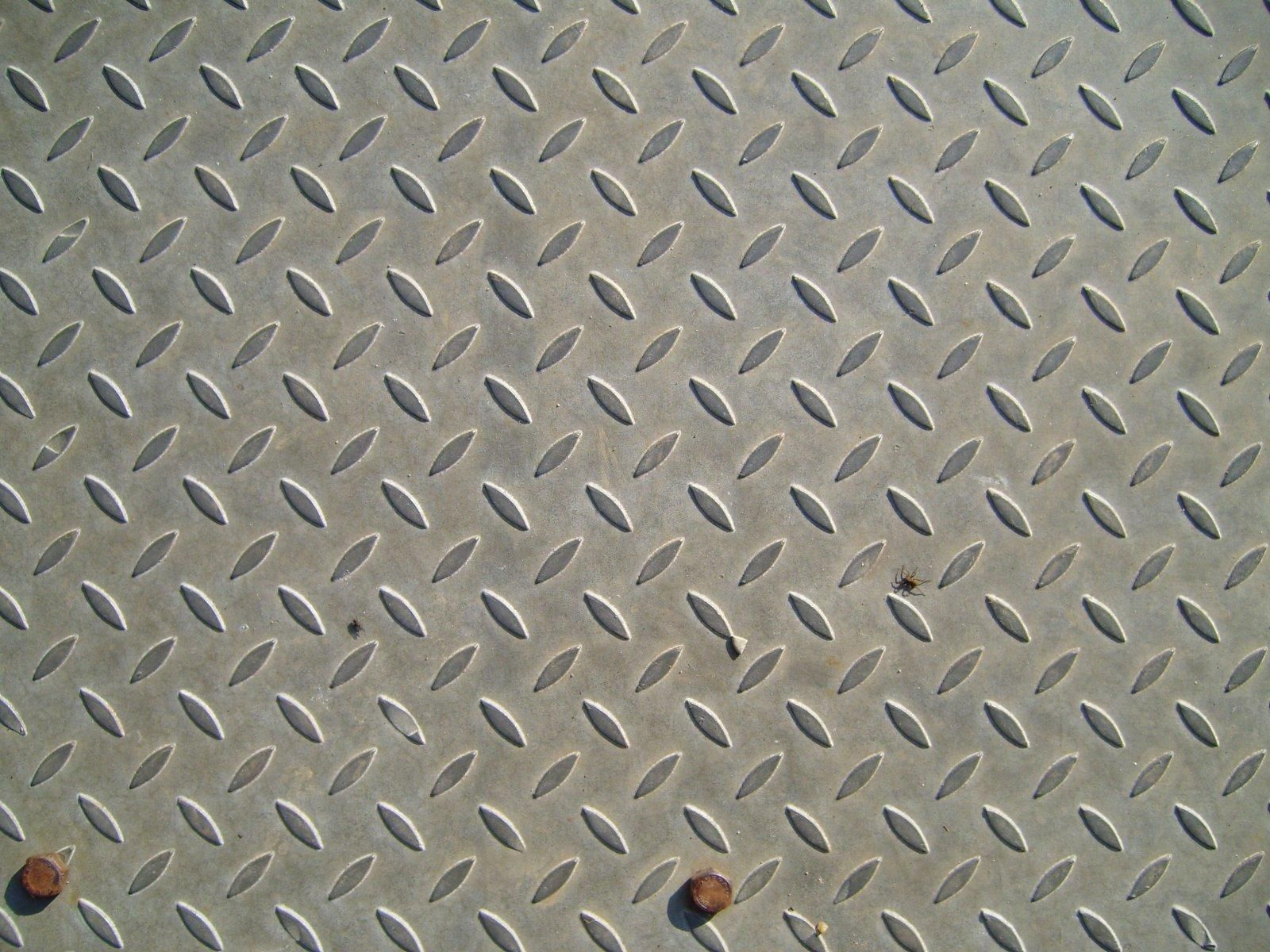 Image title: Metal steel surface Image from Public domain images website